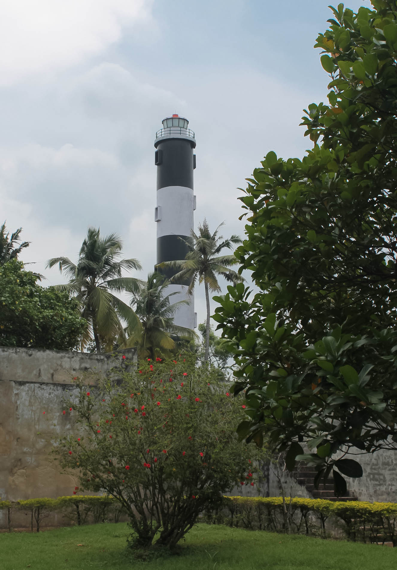 Anchuthengu Lighthouse